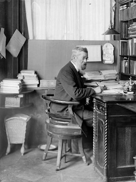 Otto Georgi (1831–1918), German lawyer and Reichstag representative, “Oberbuergermeister” (mayor) in Leipzig, in his job in the old city hall